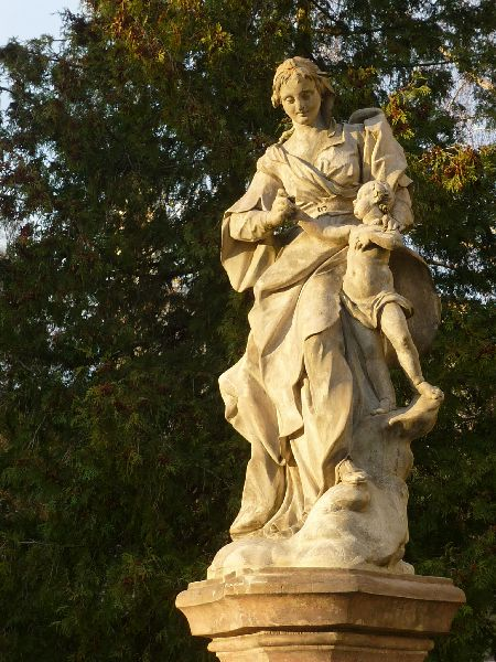 Statue of Virgin Mary in Pitín (Czech Republic)